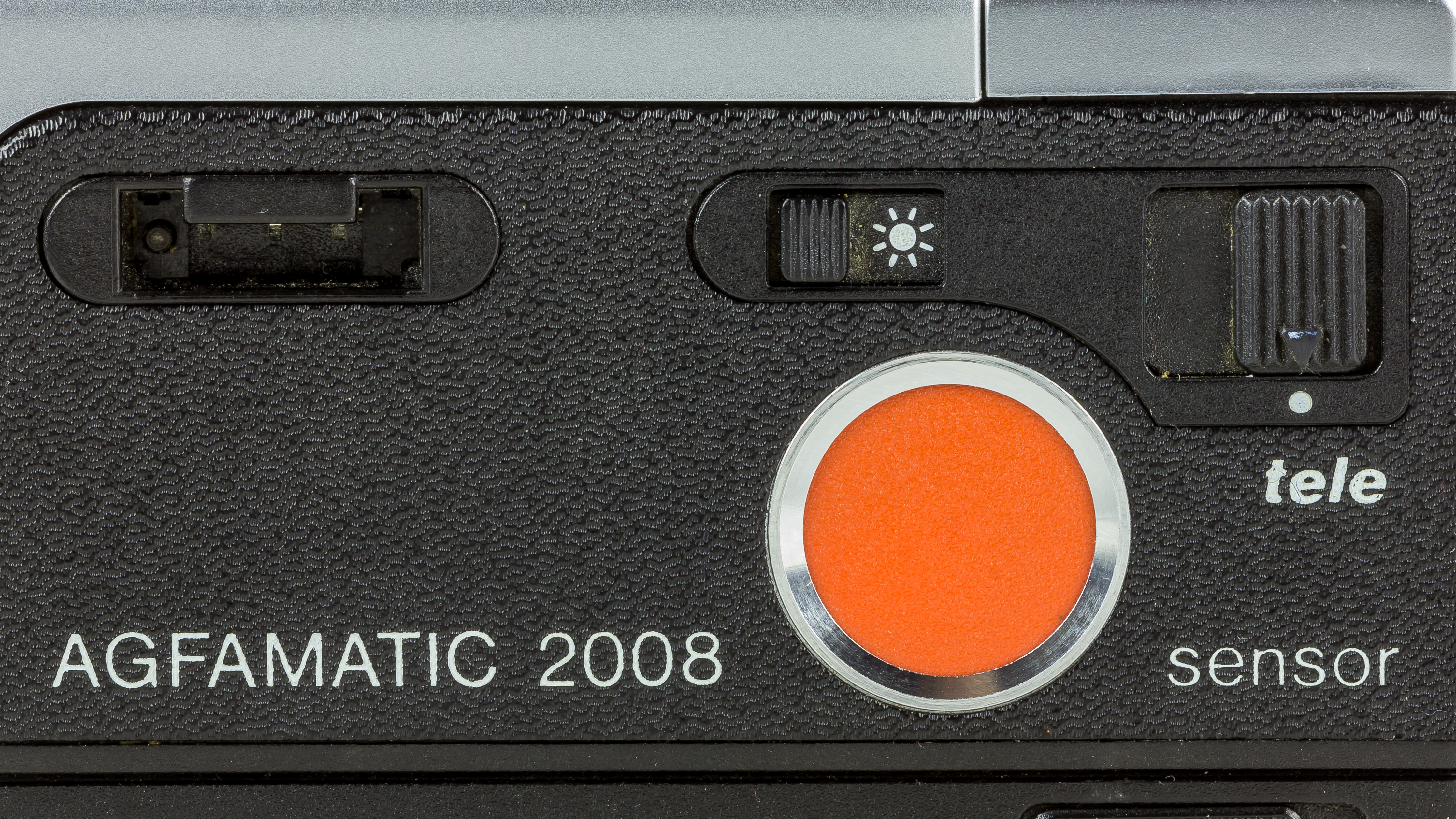 Agfamatic 2008 tele pocket - sensor button